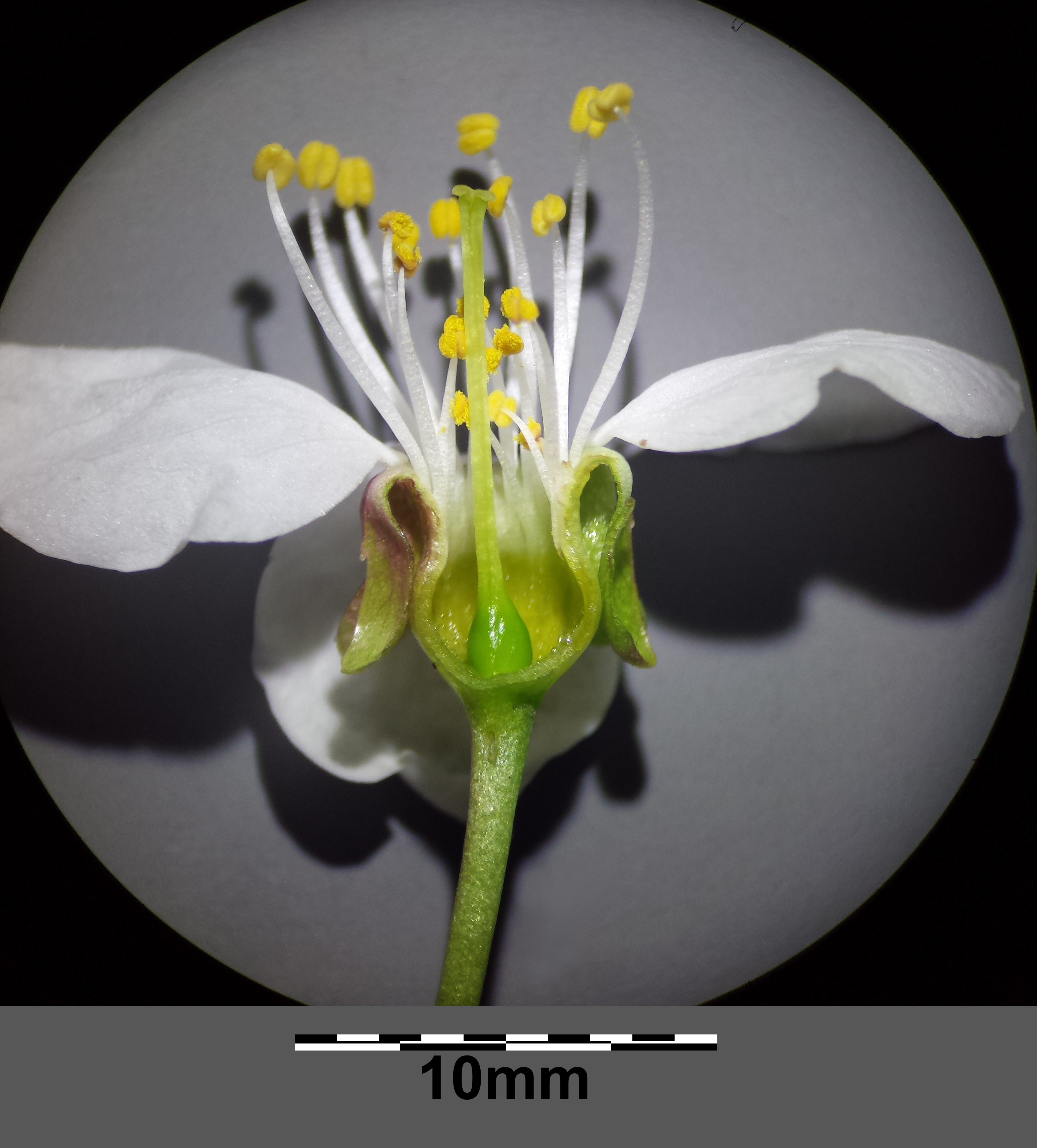 Flower, opened Taxonym: Prunus avium subsp. avium ss Fischer et al. EfÖLS 2008 ISBN 978-3-85474-187-9 Location: near Niederhollabrunn, district Korneuburg, Lower Austria - ca. 350 m a.s.l. Habitat: vineyard